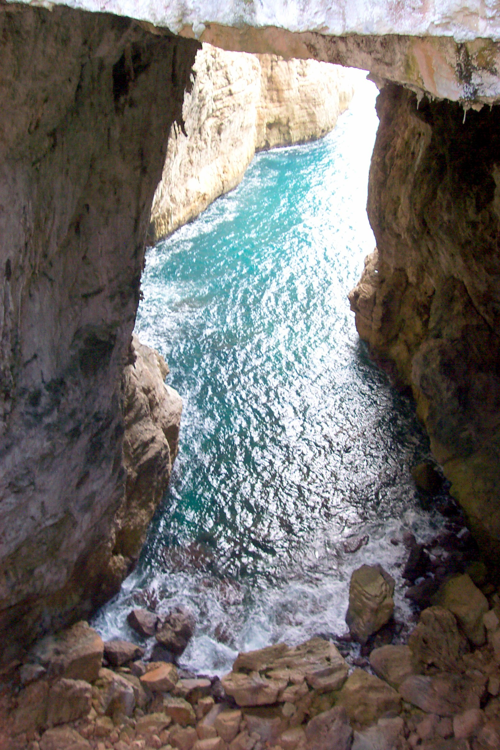 Mountain split, Gaeta Italy